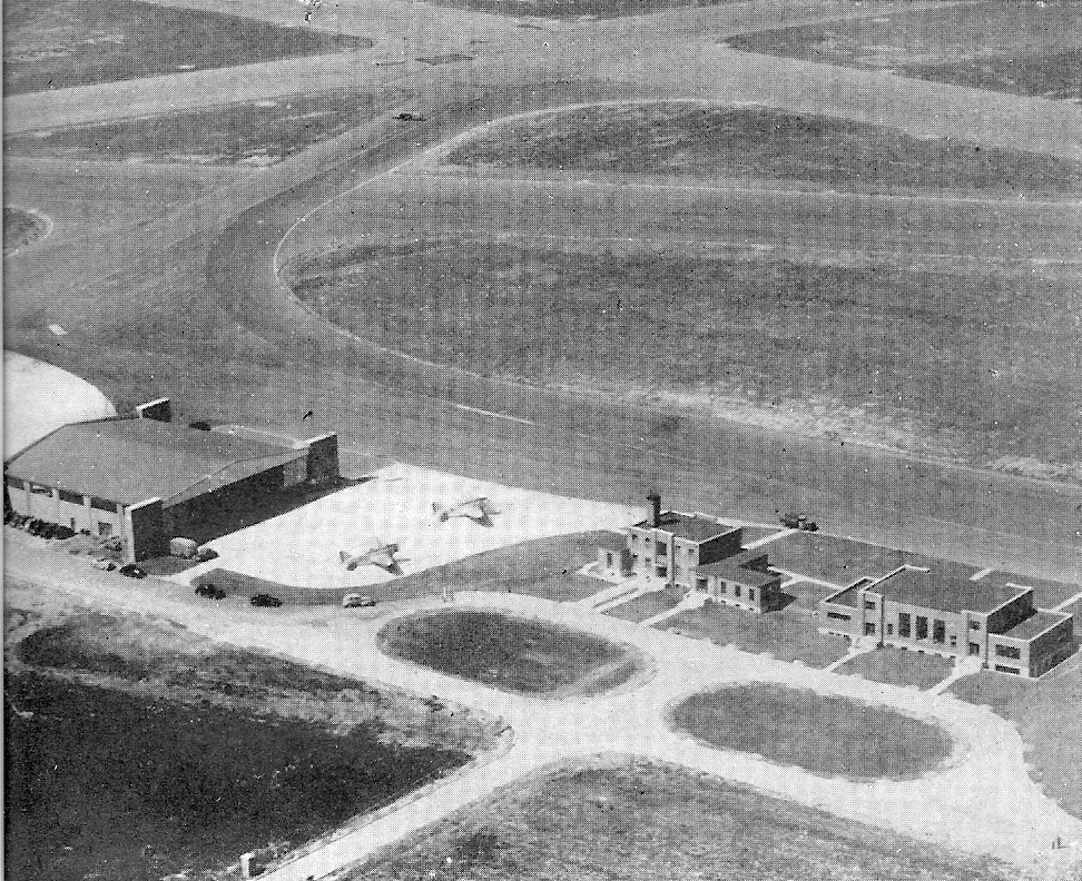 Aerial image of Berry Field Nashville Airport featuring the Tennessee National Guard facilities in the World War 2 era.